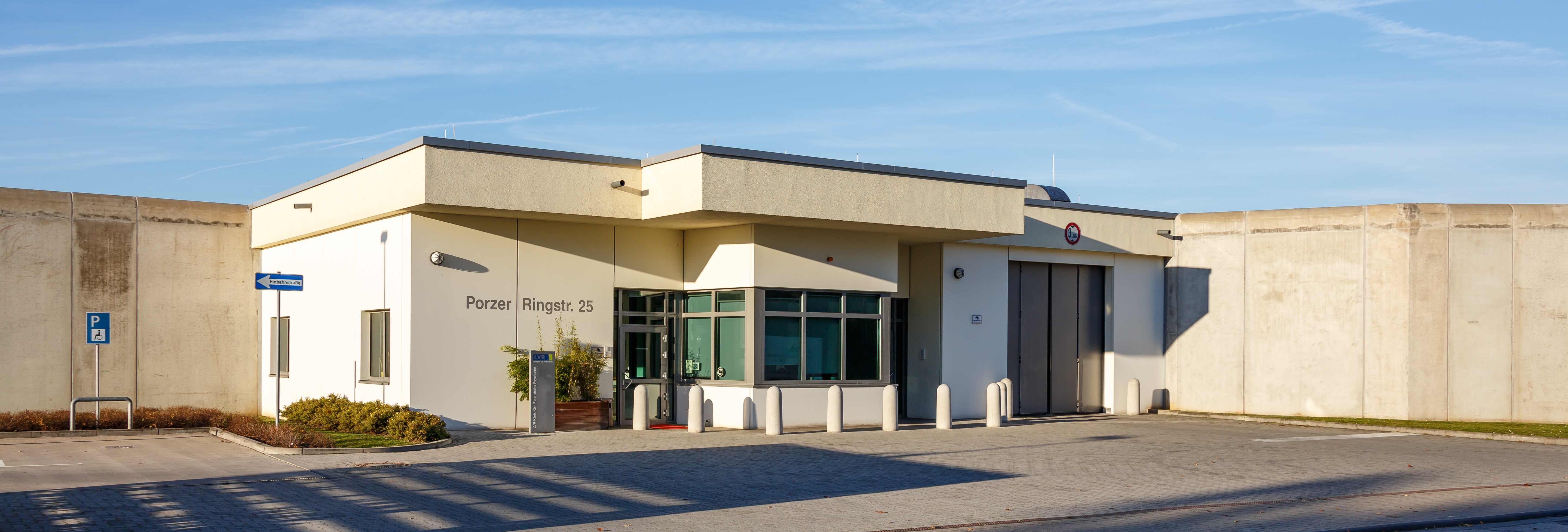 Cologne, Germany: Entrance building of LVR Clinic Cologne, Forensic Psychiatrie